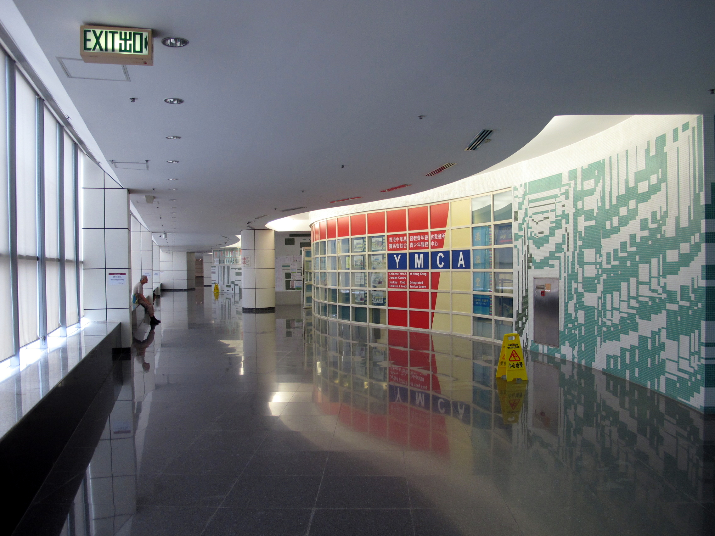 The Waterfront Public access